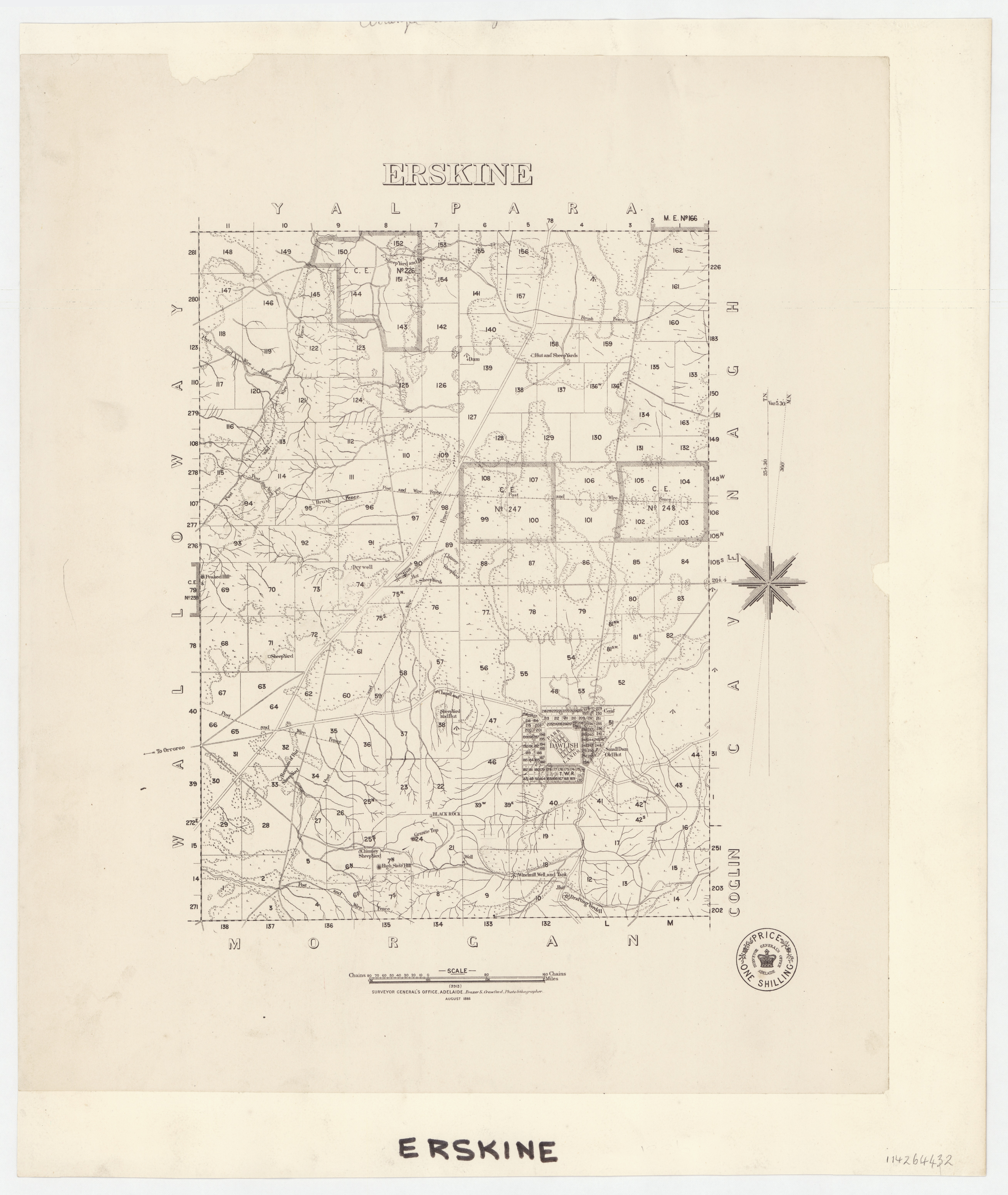 View additional information for this map Filename: map830bje63360_erskine1886_ds.jpg